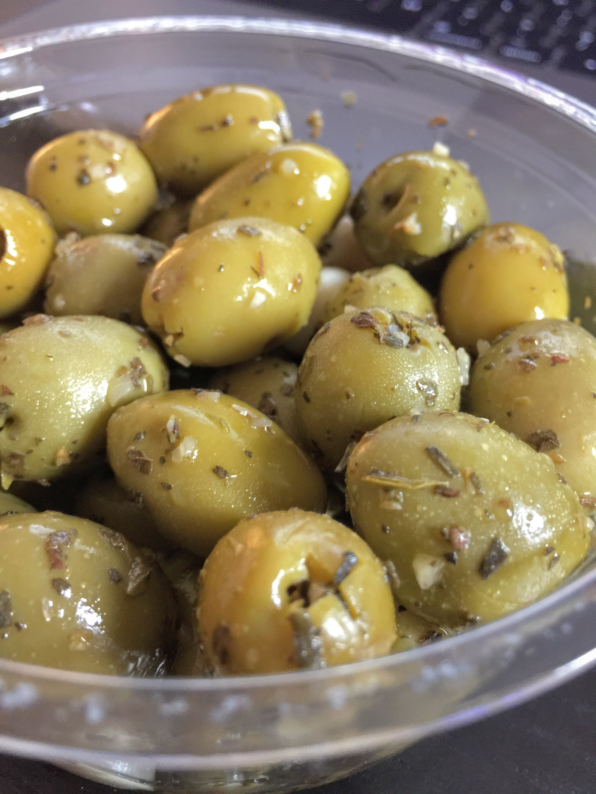 Olives in a cup